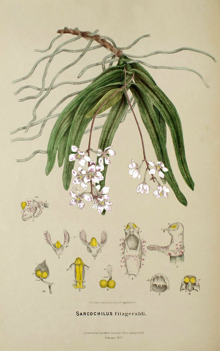 Illustration of Sarcochilus fitzgeraldii from Fitzgeraldi, R. D.: Australian Orchids